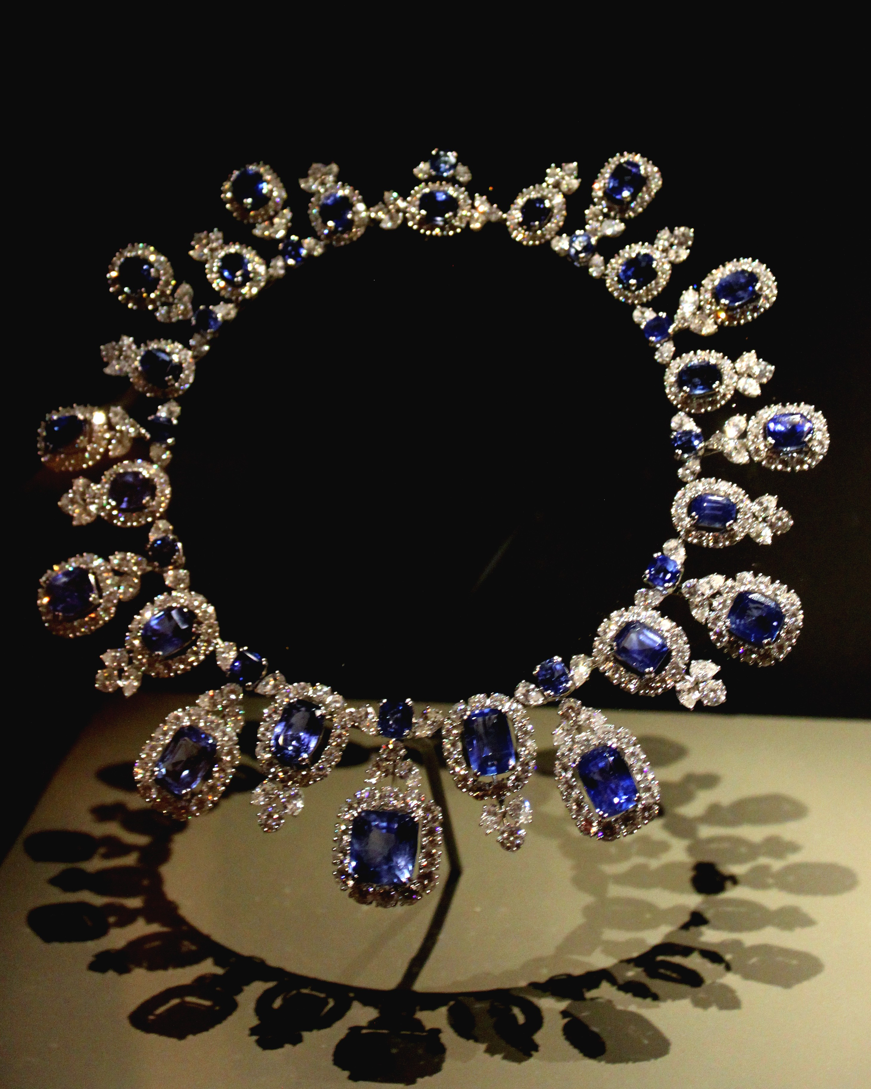 Blue Sapphire Necklace, Museum of Natural History, Washington DC